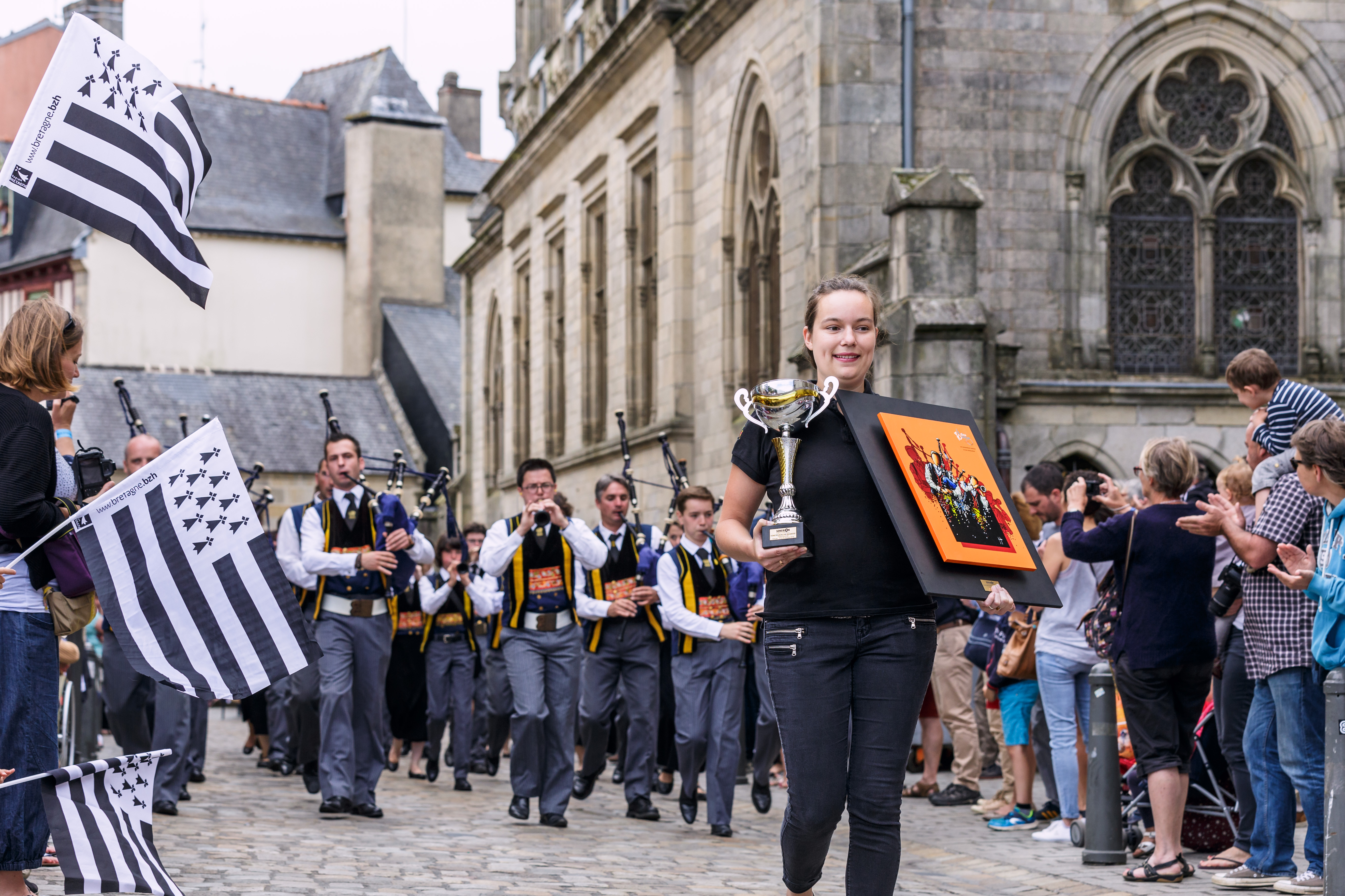 Parade of Breton folk groups during the 2016 Cornouaille Festival in the streets of Quimper.